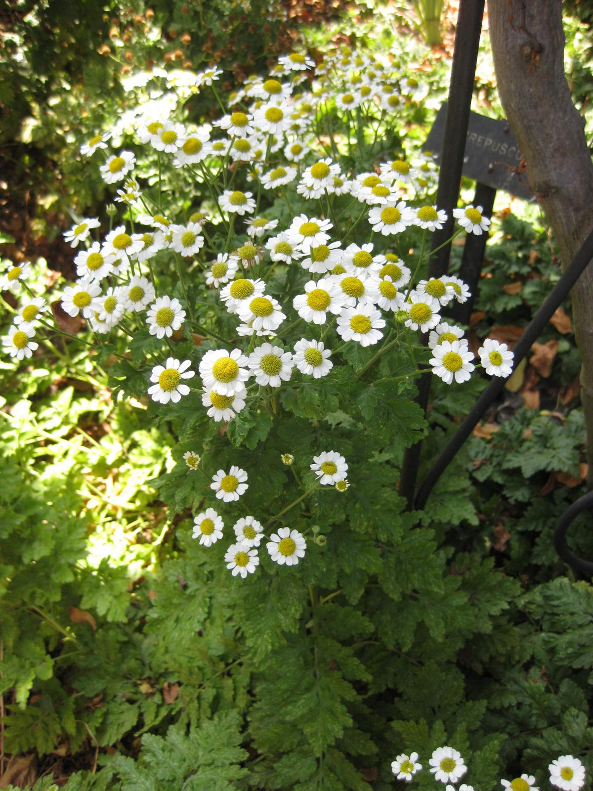 Photographed at Huntington Gardens (Los Angeles, California) in August